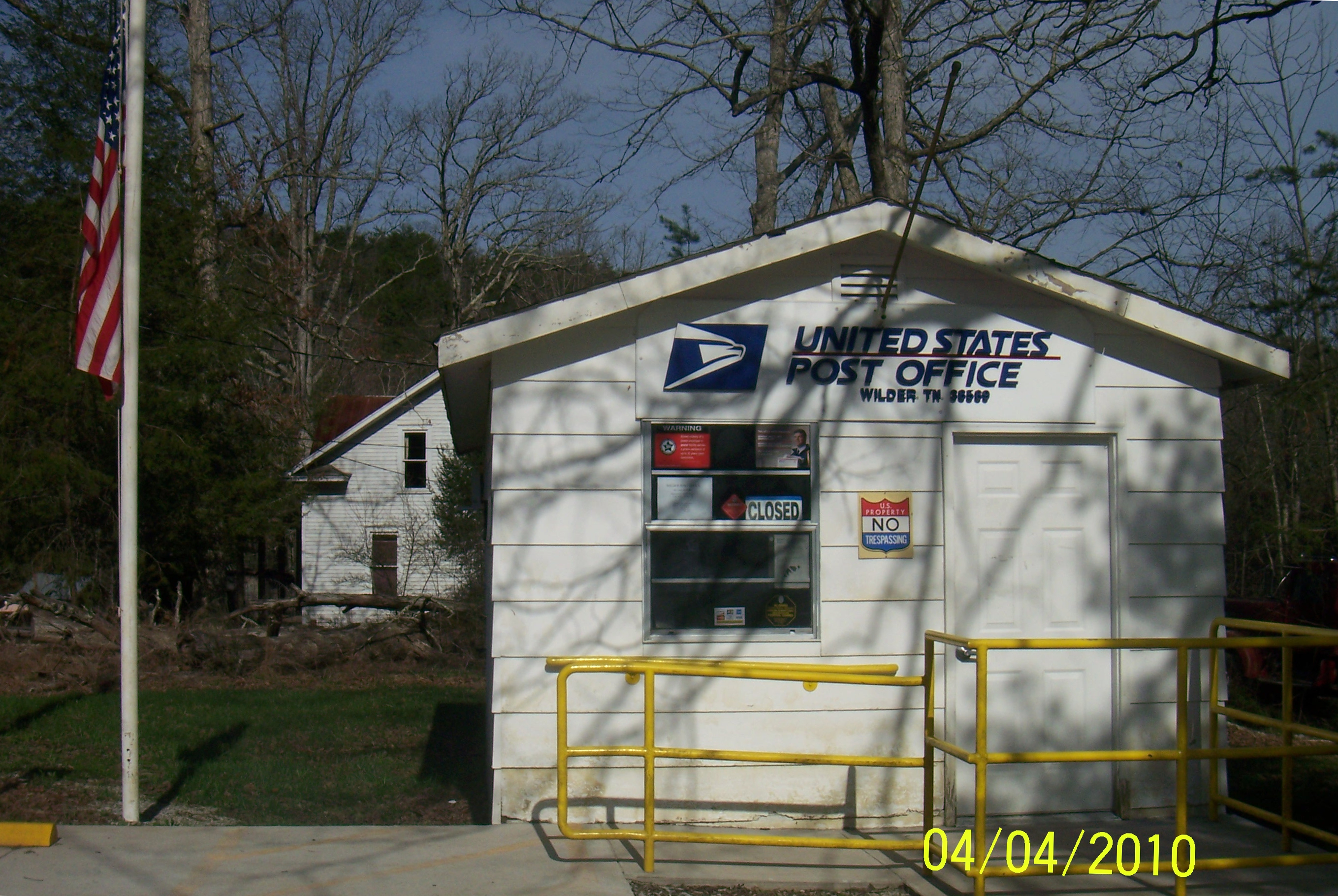 Wilder Post Office in Wilder, Tennessee in April, 2010.